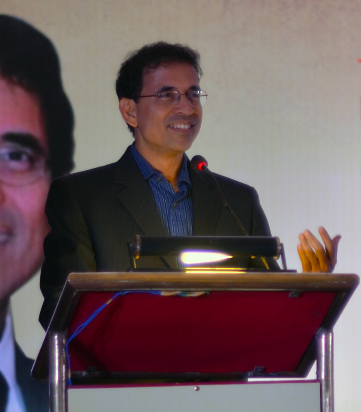 Indian Cricket commentator Harsha Bhogle. Photographed during Odia newspaper The Sambad's 30 year anniversary.ଓଡ଼ିଆ: ଭାରତୀୟ କ୍ରିକେଟ ବିବରଣୀକାର ହର୍ଷ ଭୋଗଲେ । ଏହି ଫଟୋ ଦୈନିକ ଓଡ଼ିଆ ଖବରକାଗଜ ସମ୍ବାଦର ୩୦ ବର୍ଷ ପୂରଣ ପାଳନ ବେଳେ ଉଠାଯାଇଥିଲା ।